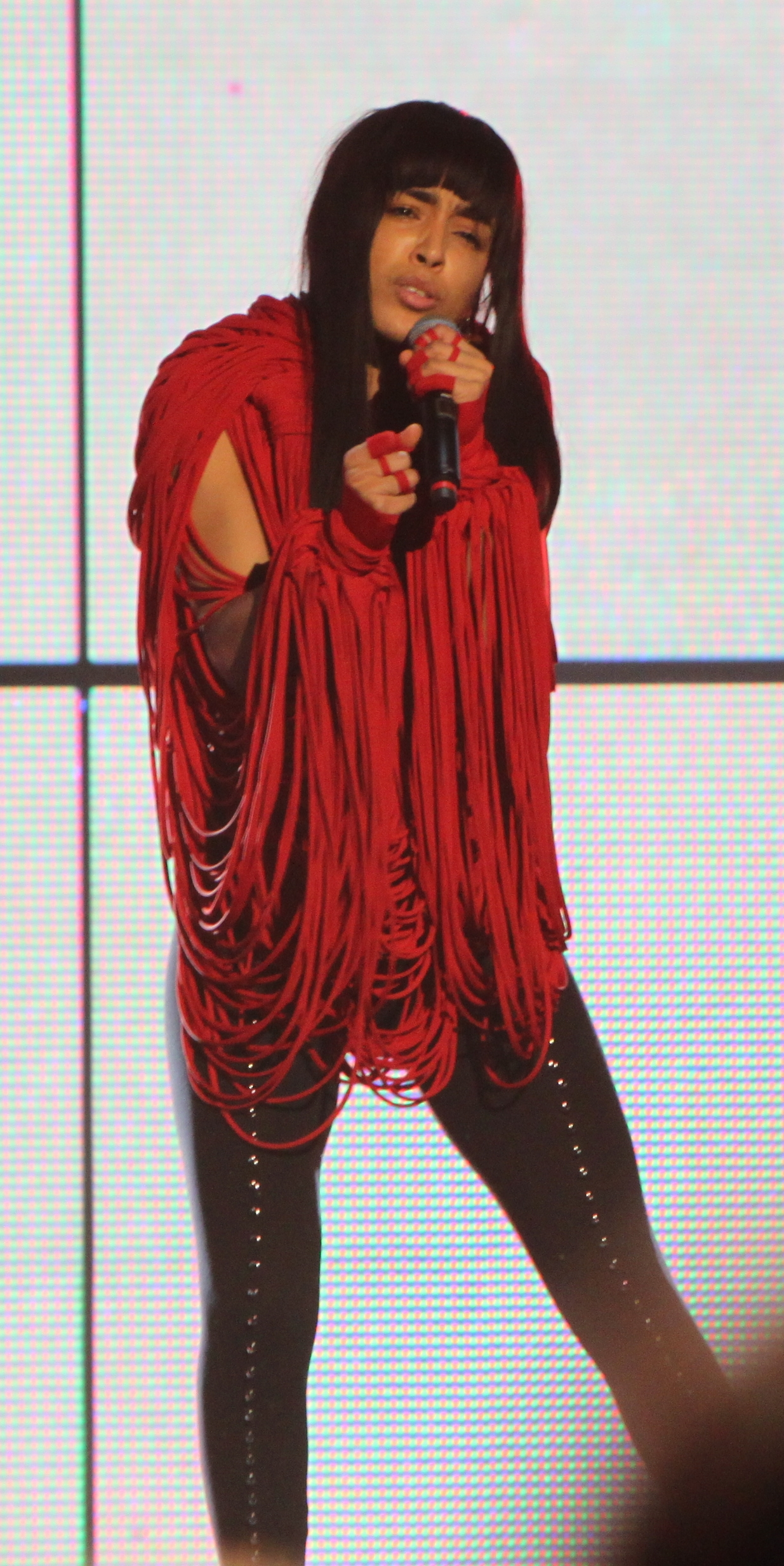 Loreen repetition melodifestivalen